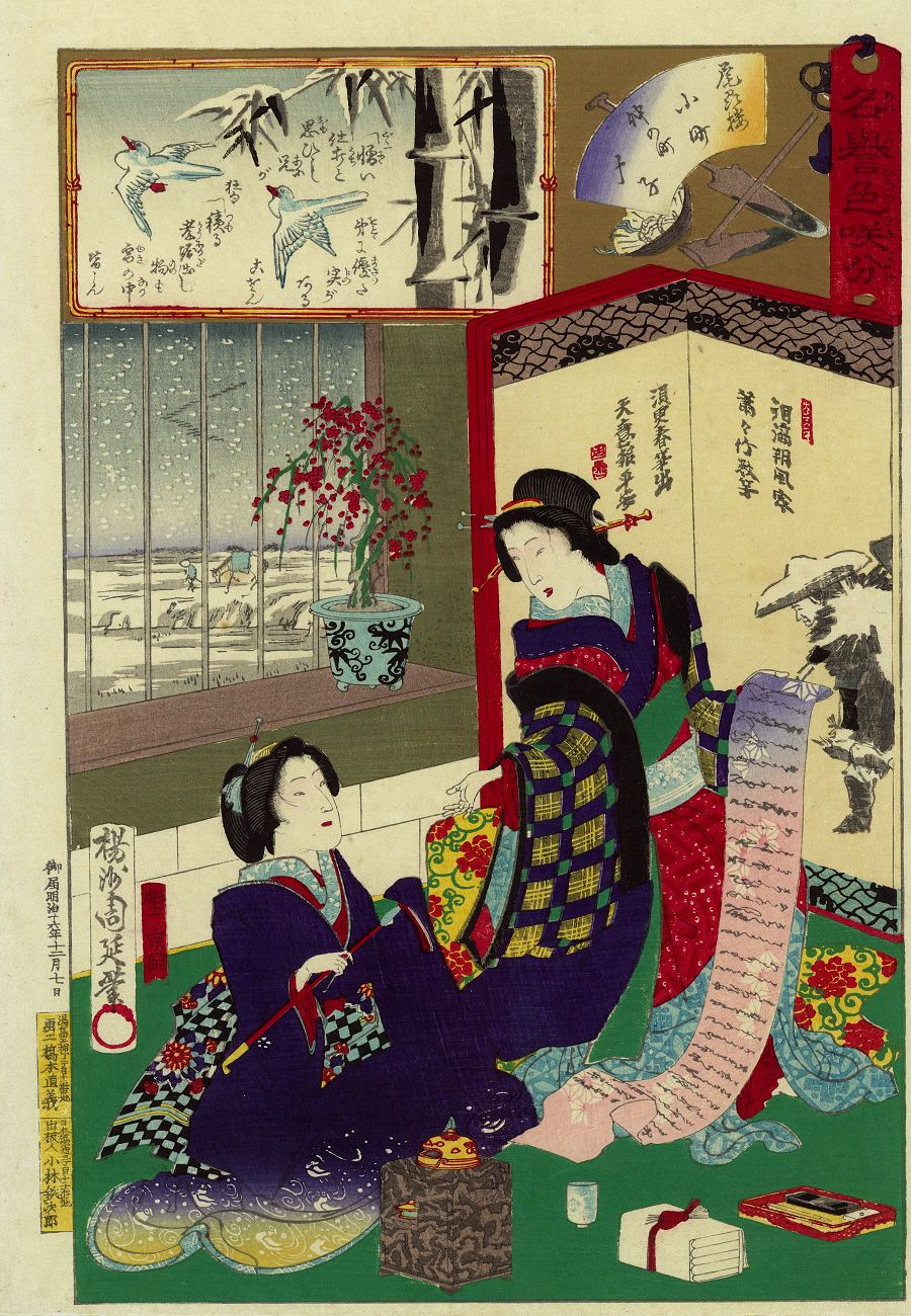 Two women reading a letter